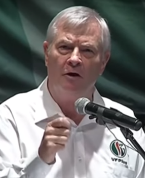 Description from eNCA: The Freedom Front Plus will launch its elections manifesto in Pretoria on Saturday.